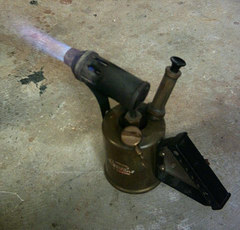 Kerosene-burning Blowlamp. "Parasene" brand, made in England.